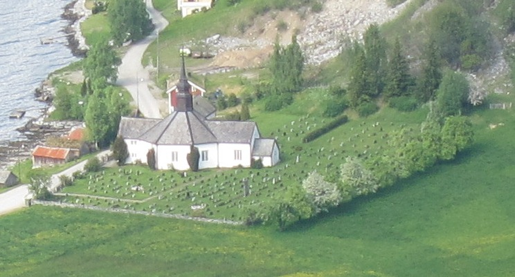 Dale (Norddal) church seen from Hallstad, south to north direction. With churchyard.